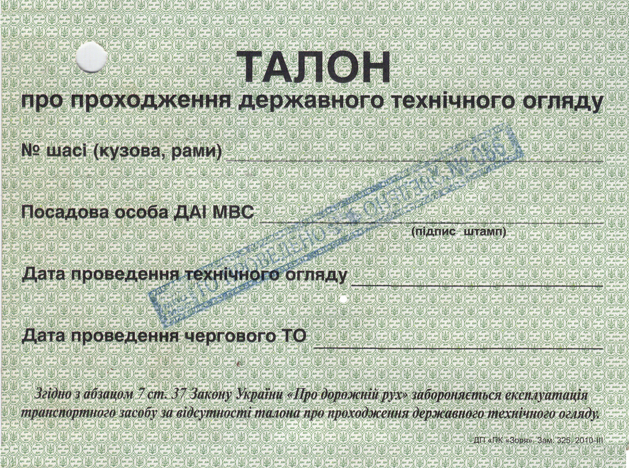 Ukrainian DAI talon 2010, side B. November 2010 - november 2012. Kharkov City.